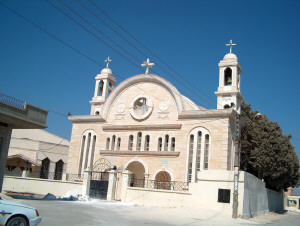 Mar Elias monastery in Fairouzeh, Syria